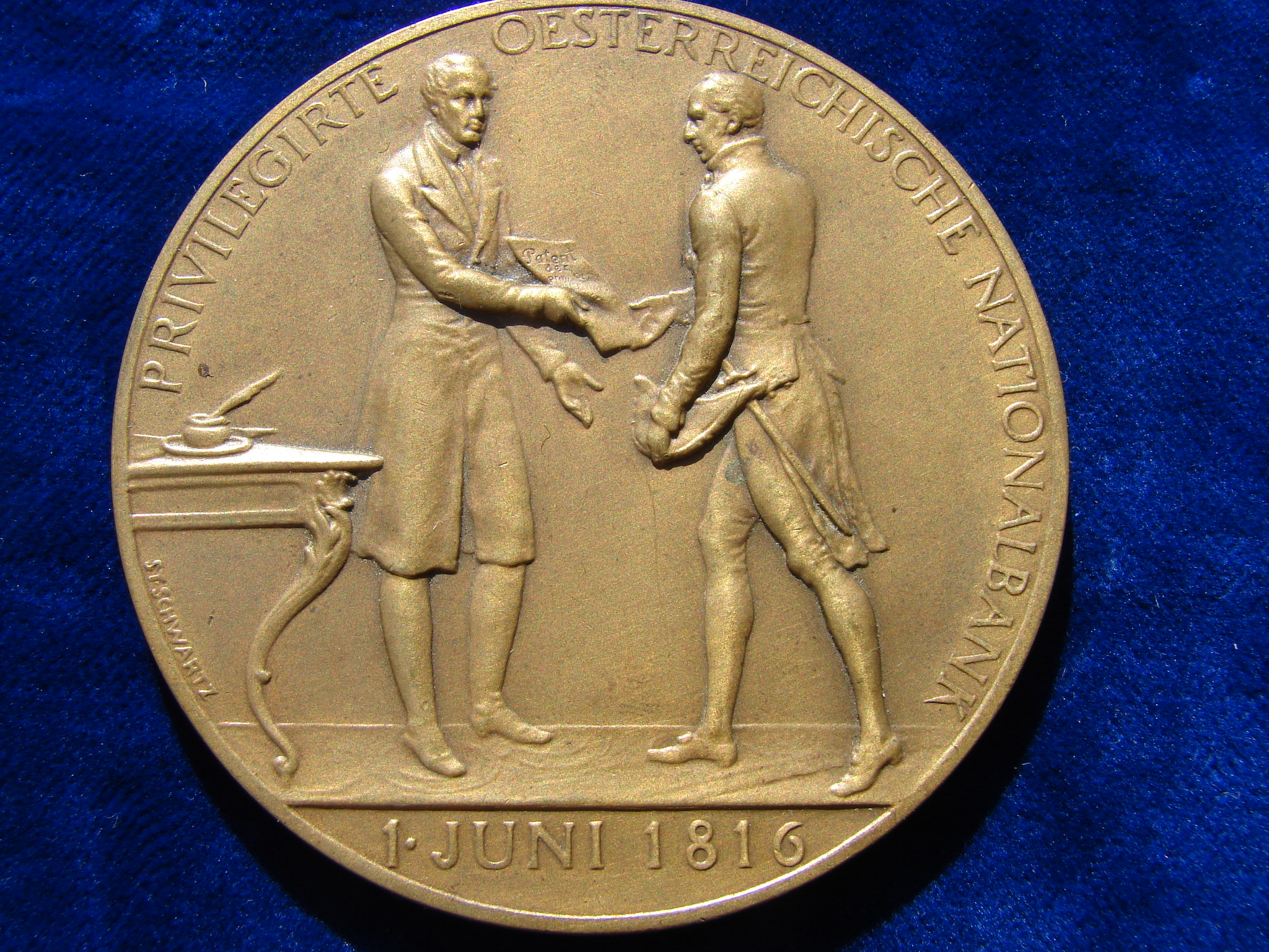 Franz I, Emperor of Austria, 1804 - 1835 and Johann Philipp Karl Joseph Graf von Stadion (-Warthausen), 1763 Warthausen, Württemberg, Germany - 1824 Baden bei Wien, Austria. Bronze, d.= 65 mm. Francis I at l. presents the Charter of the Nationalbank to finance minister Count von Stadion at r. in exergue: " 1. JUNI 1816", curved above: "PRIVILEGIERTE OESTERREICHISCHE NATIONALBANK"/ 10 lines text between 2 laurel branches: "FRANCISCVS I. KALENDIS JVNIIS A MDCCCXVI CONDIDIT FRANCISCO IOSEPHO I. ANNVM LXVIII SVMMA GLORIA REGNANTE SAECVLARIA ORIGINIS ACTA SVNT MCMXVI". Wurzbach 1035. Medallist: St. (Stefan) Schwartz, Sculptor, 1851 Neutra (Slowakia) - 1924 Raabs, Lower Austria. Condition: UNCIRCULATED